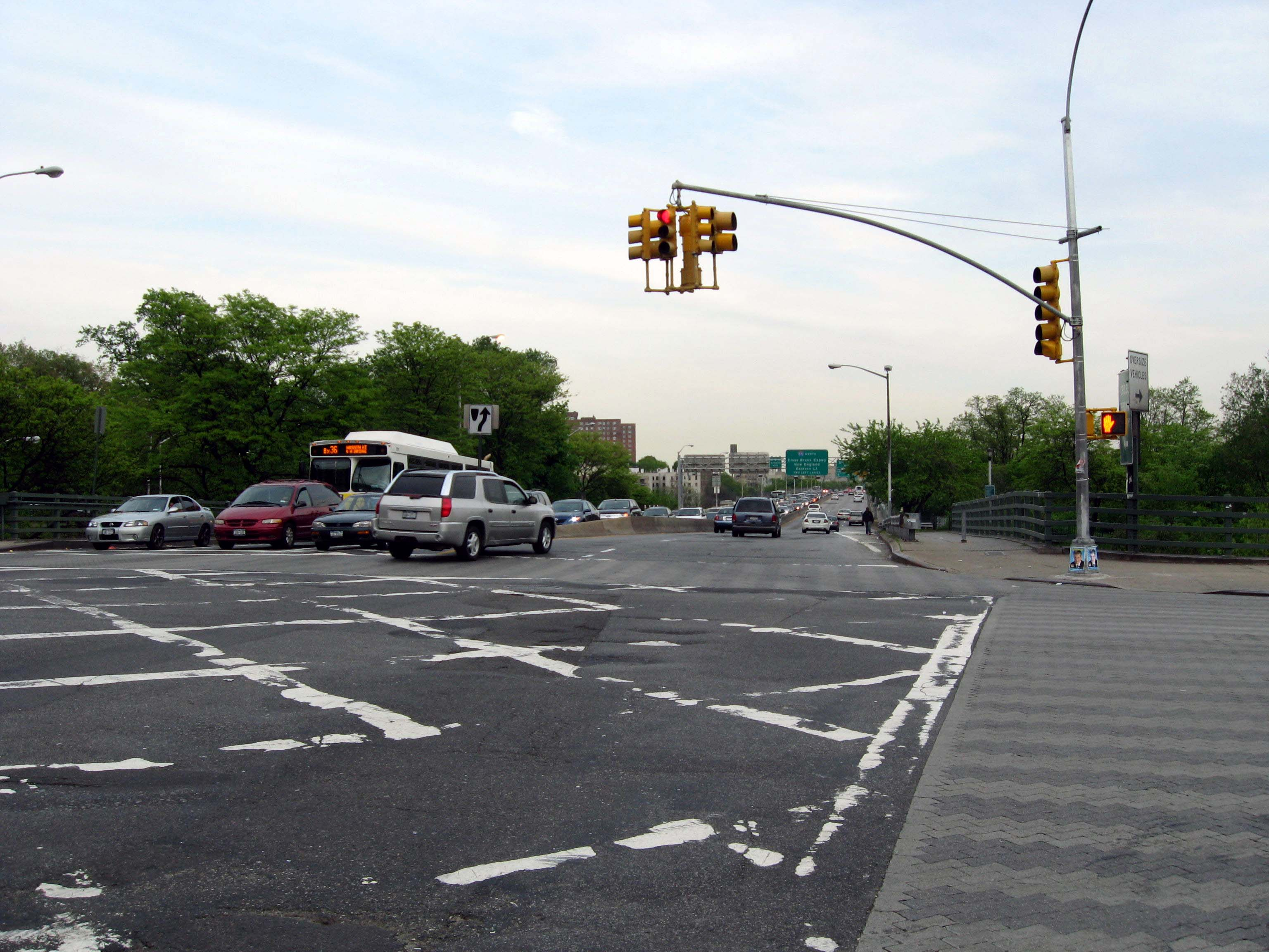 Looking east along en:181st Street (Manhattan) as it runs into Washington Bridge on a cloudy May 14.